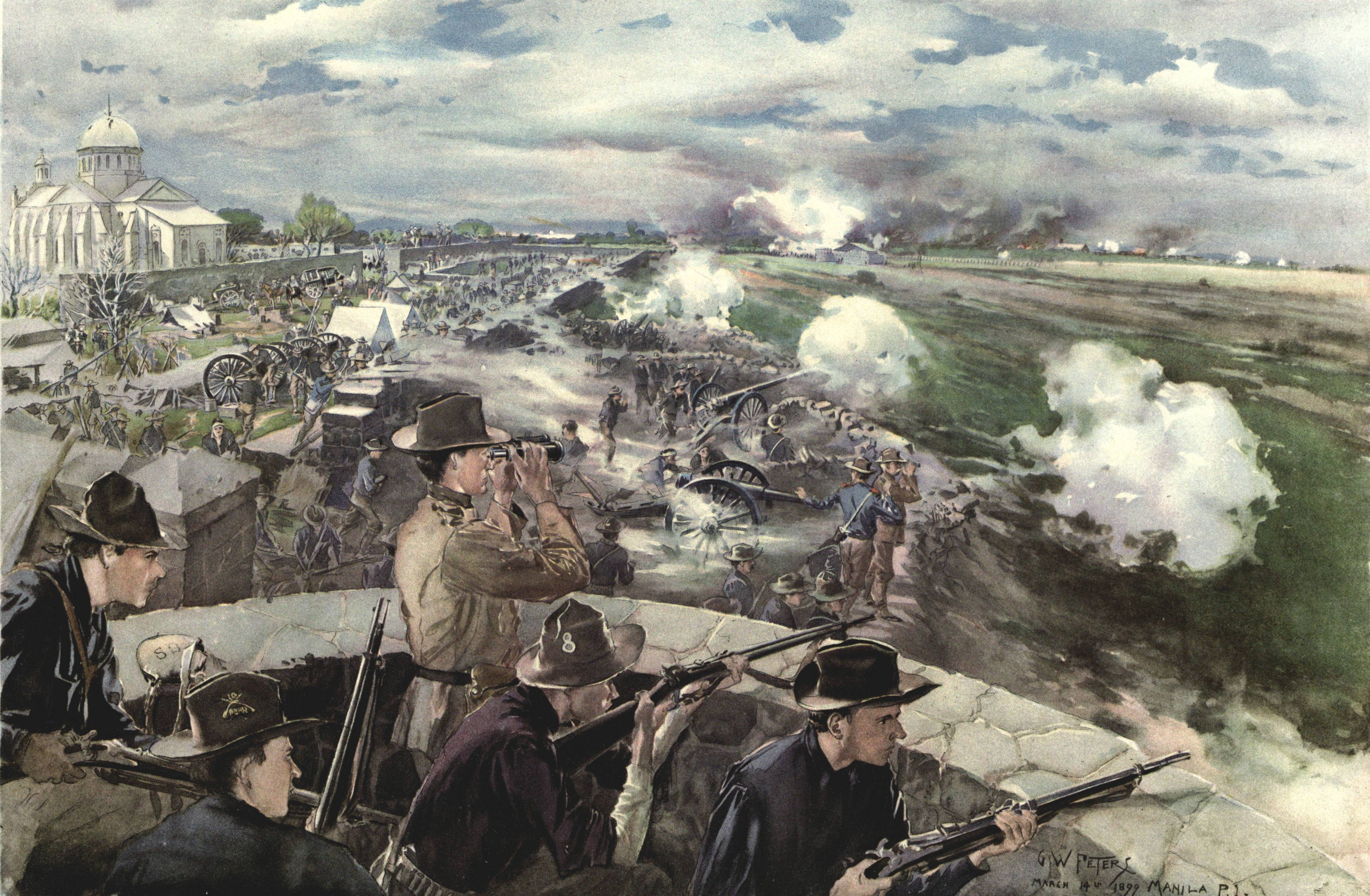 The battle before Caloocan, February 10, 1899 - View from the Chinese church. Maj. Gen. Arthur MacArthur on inner wall, to right of church, battery of Utah Artillery in the middle foreground, the 10th Pennsylvania Volunteers, of MacArthur's division, behind the wall. From between p. 456 and 457 of Harper's Pictorial History of the War with Spain, Vol. II, published by Harper and Brothers in 1899.